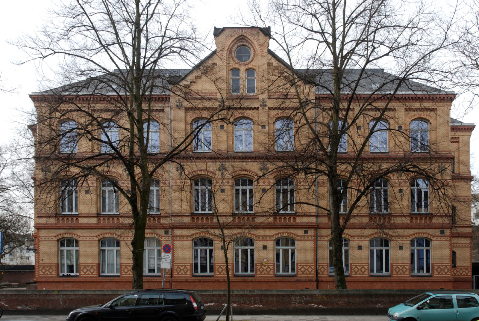 Building Kronprinzenstraße 107 in Düsseldorf-Unterbilk, Germany